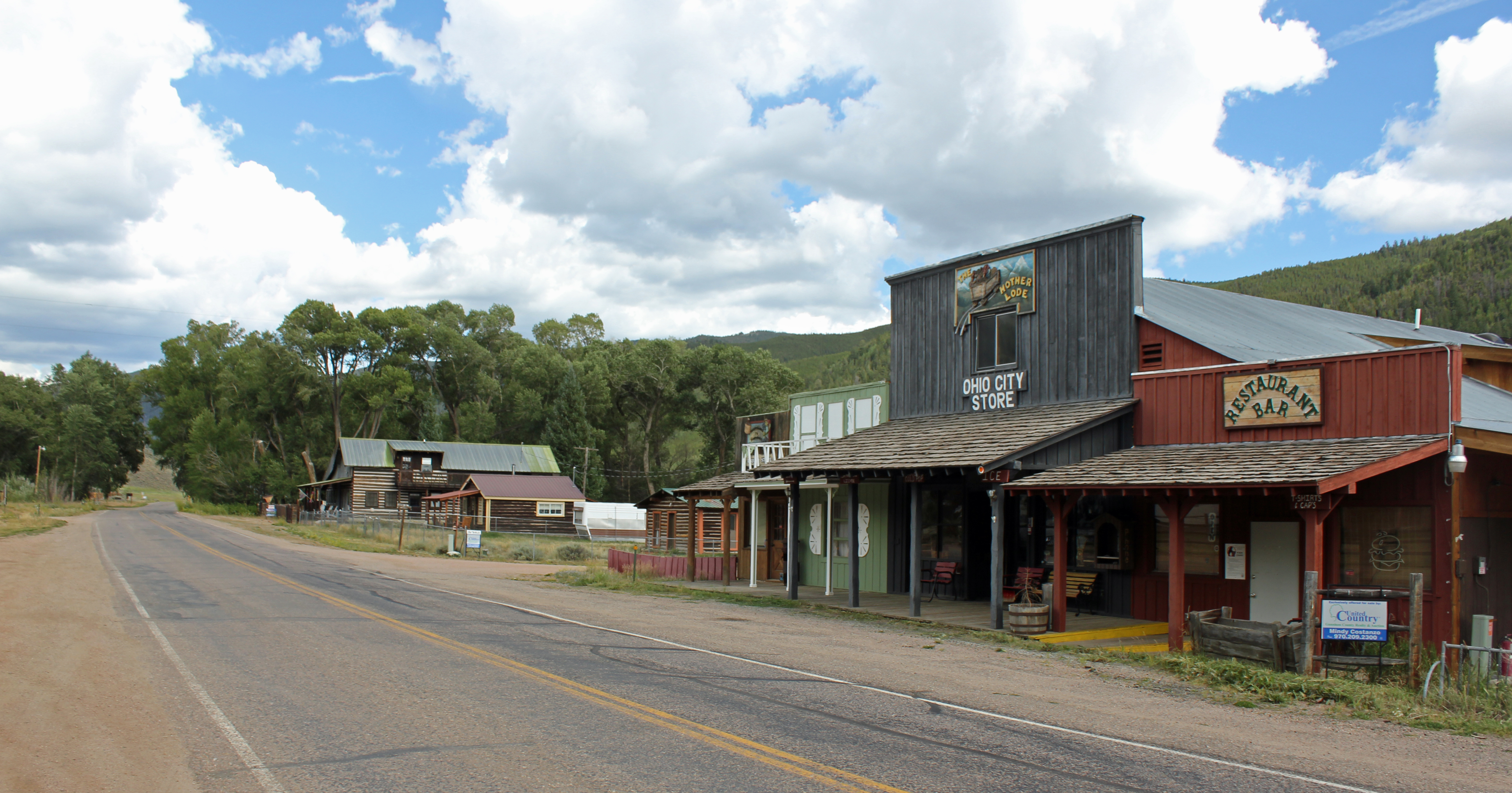 The main street (Gunnison County Road 76) in Ohio City, Colorado.